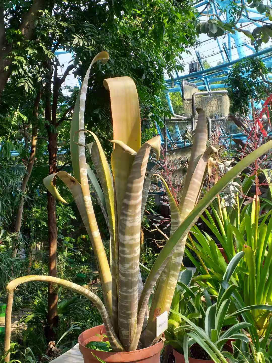 Billbergia vittata. Botanical Garden of National Museum of Natural Science, Taichung, Taiwan.